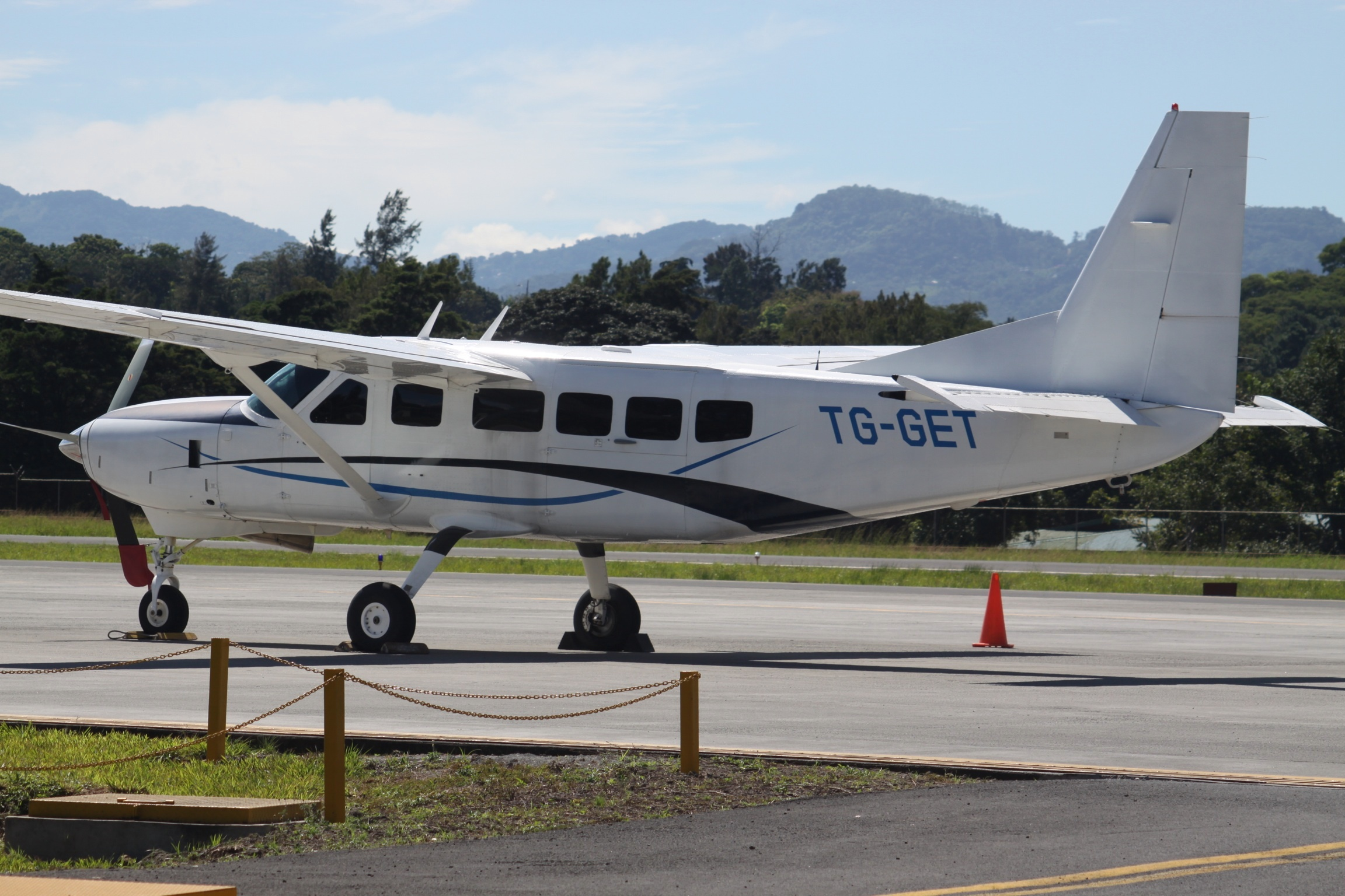 At Tobías Bolaños International